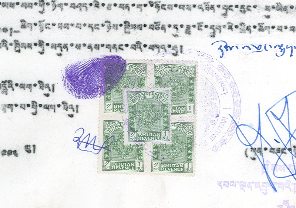 1955 Bhutan revenue stamps, issued before postal stamps were issued, used on legal document